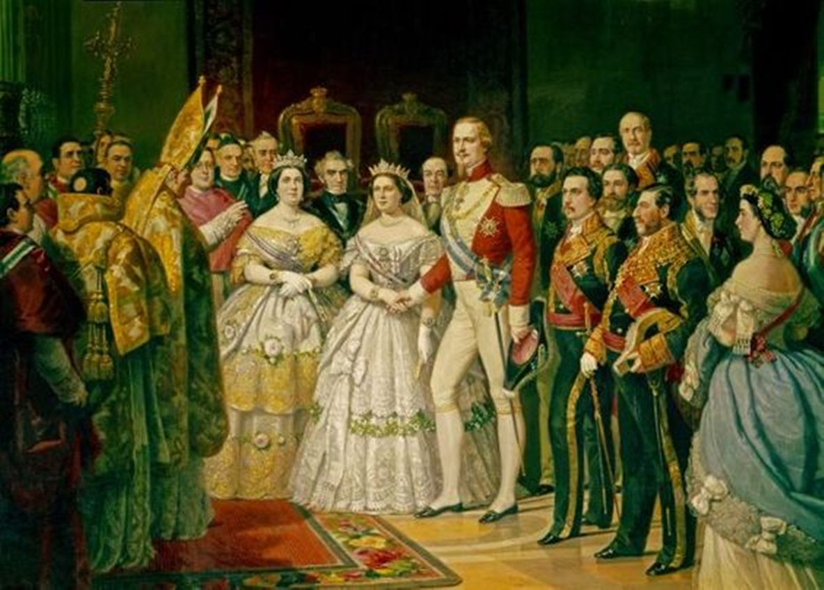 Wedding of Prince Adalbert of Bavaria and Infanta Amalia of Spain